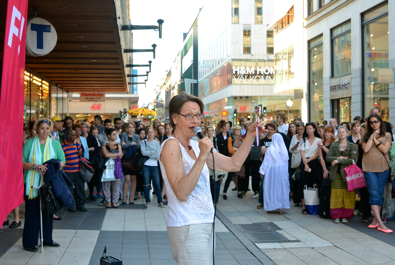 Party leader Gudrun Schyman, Feminist Initiative, holding squares meeting at Sergel's Square in Stockholm for the European elections in May 2014.